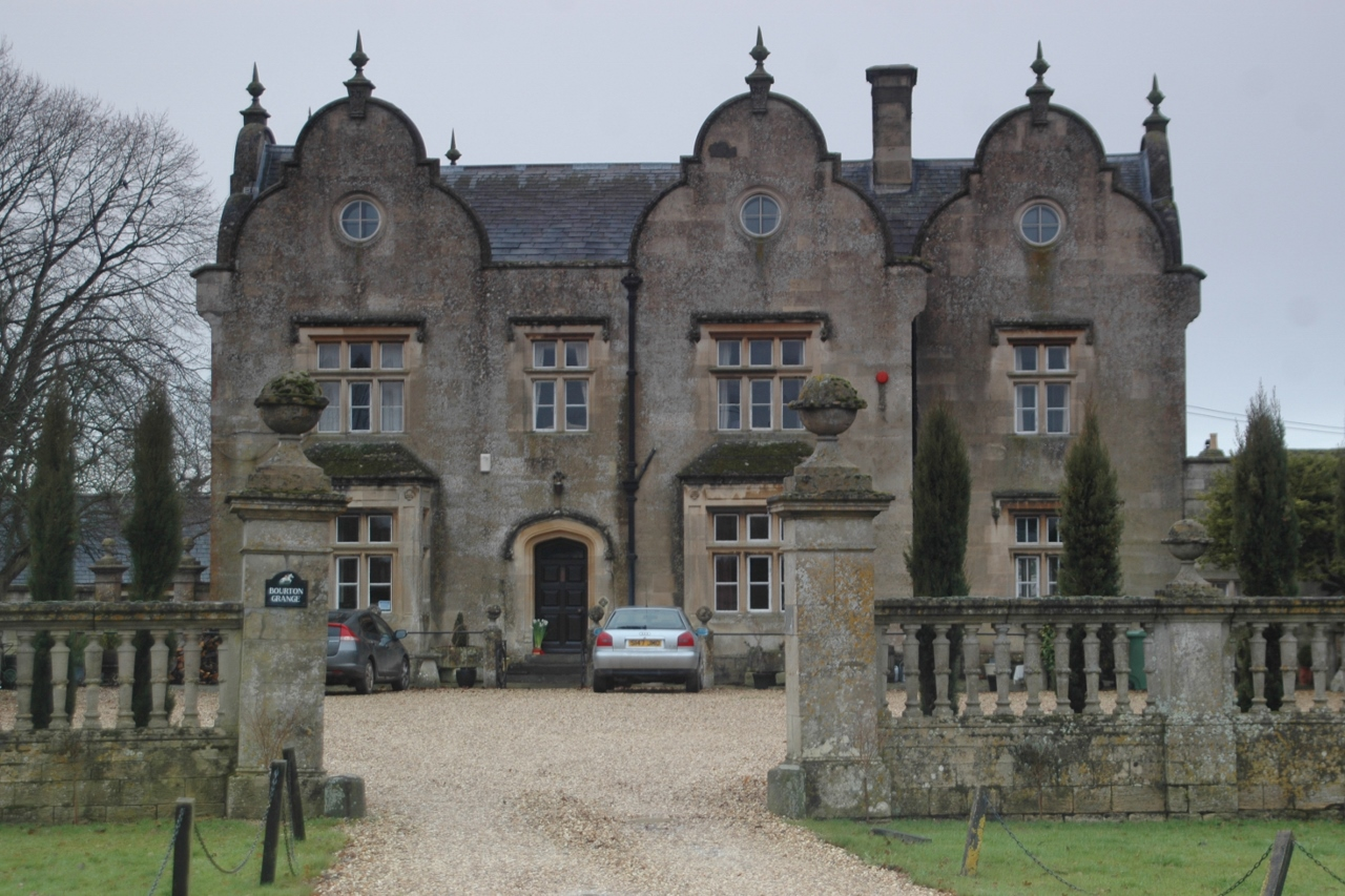 Bourton Grange, Vale of White Horse, Oxfordshire (formerly Berkshire), seen from the east